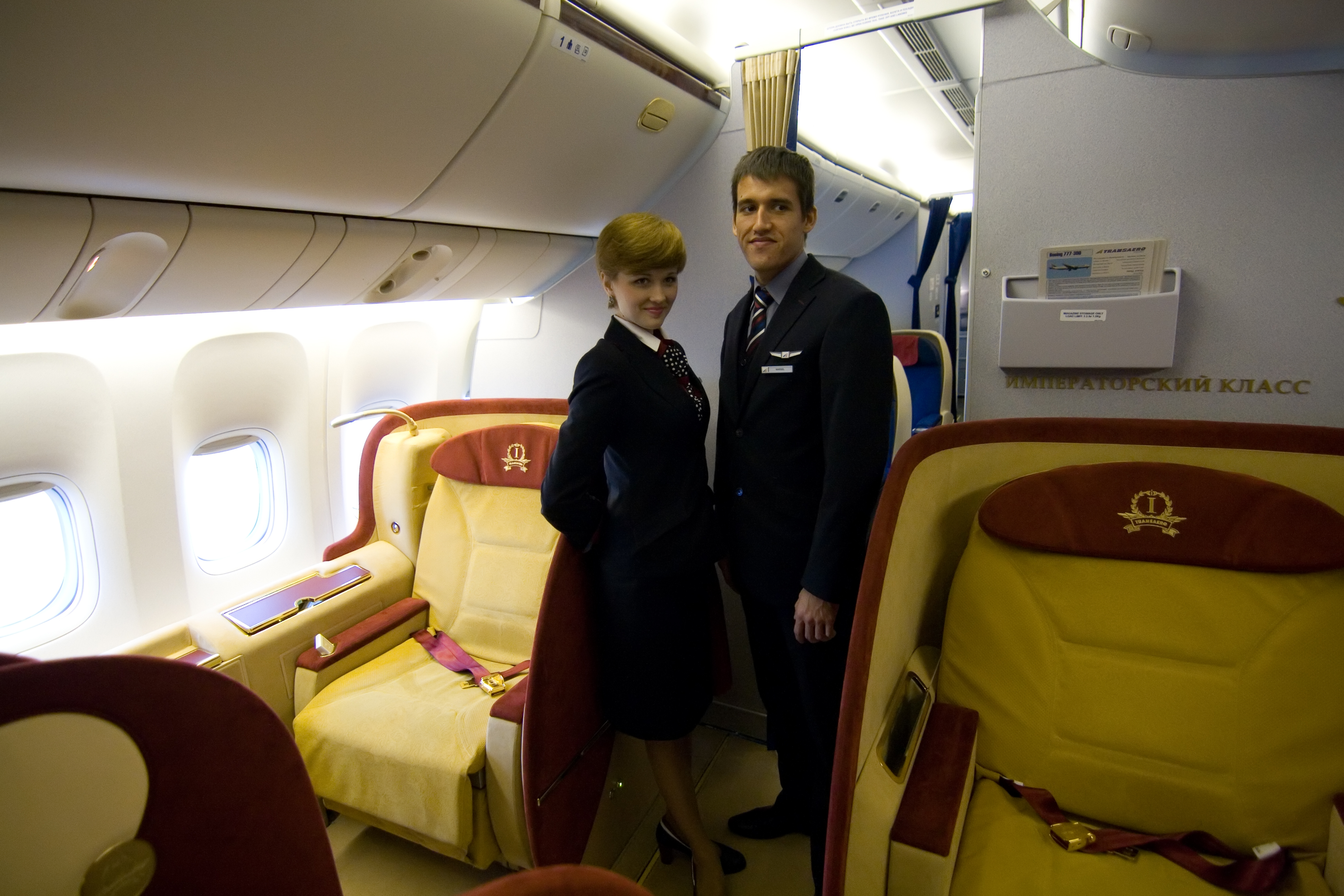 Flight attendants of Transaero Airlines in the Imperial Class cabin of one of its aircraft